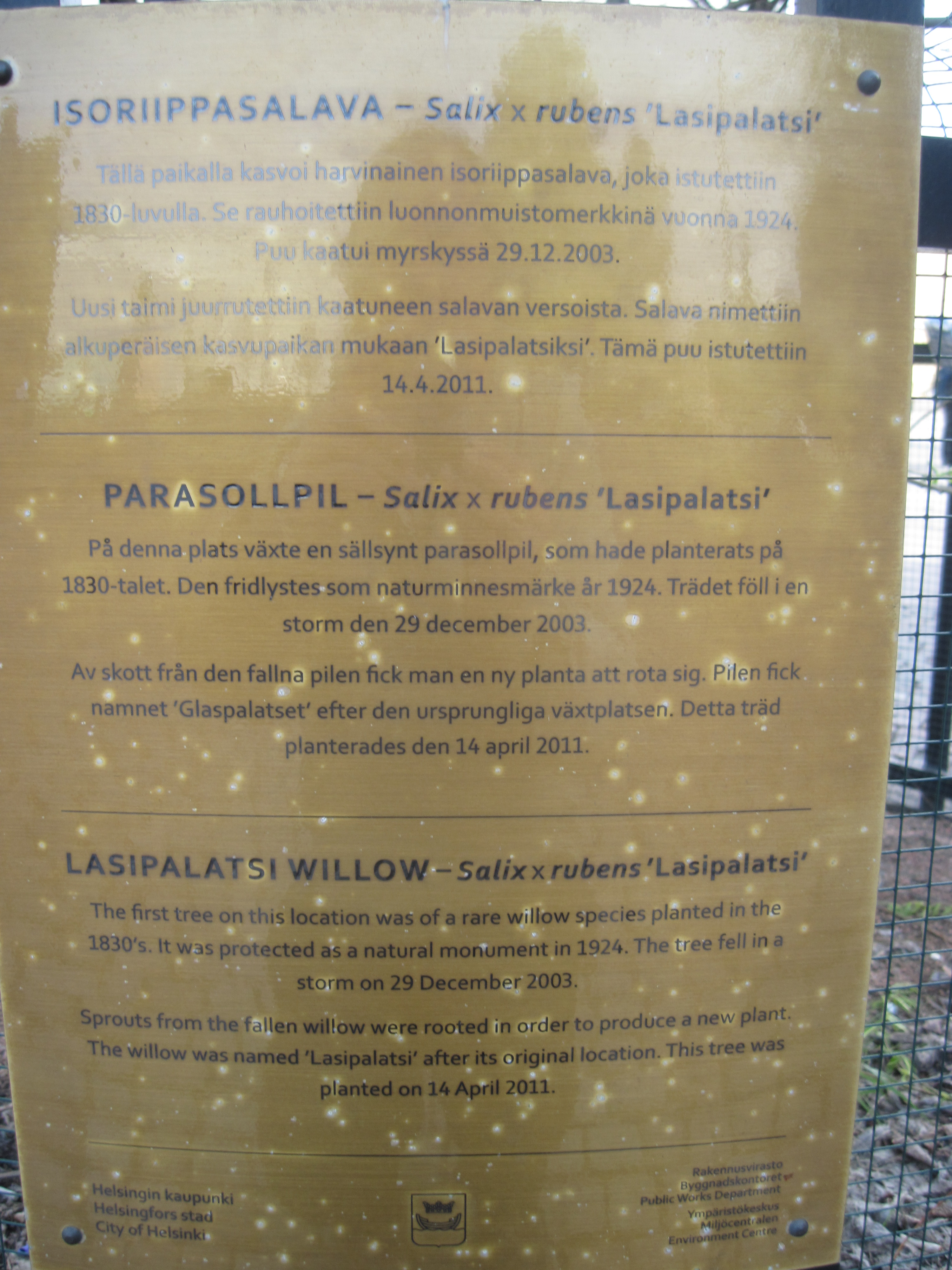 Memorial marker on the fence surrounding the new Lasipalatsi Willow in Helsinki, Finland